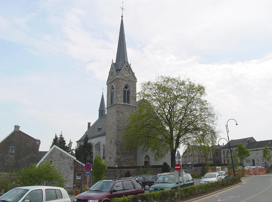 Photograph of church in Walhorn (municipality of Lontzen, Belgium)